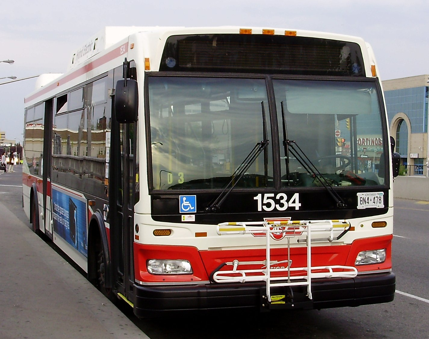 An Orion Bus Industries VII NG HEV hybrid-electric bus operated by the Toronto Transit Commission in Toronto, Canada, out of service outside Lawrence West station.